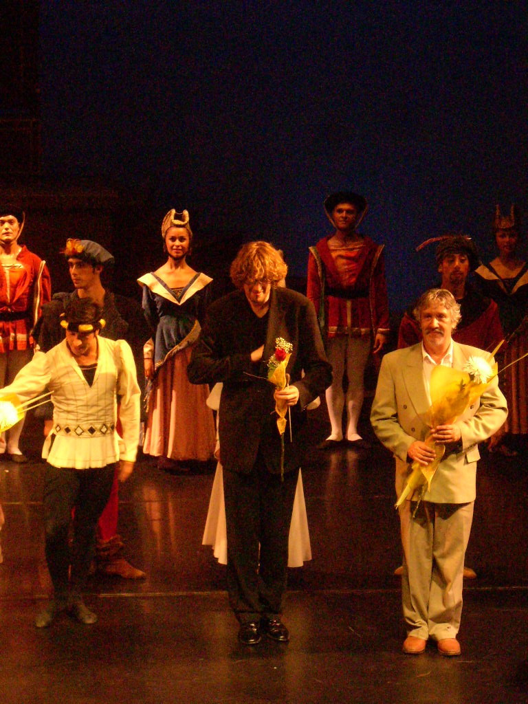 Michal_Nesterowicz, director of the OSCH